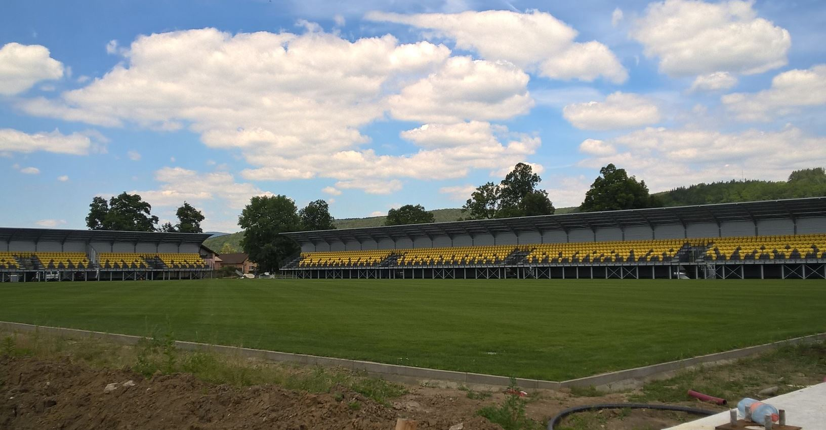 Stadium Ziar nad Hronom